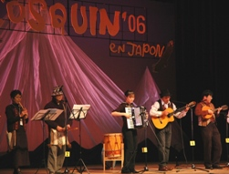 Cosquín en Japón in Kawamata Town, Fukushima Prefecture, Japan